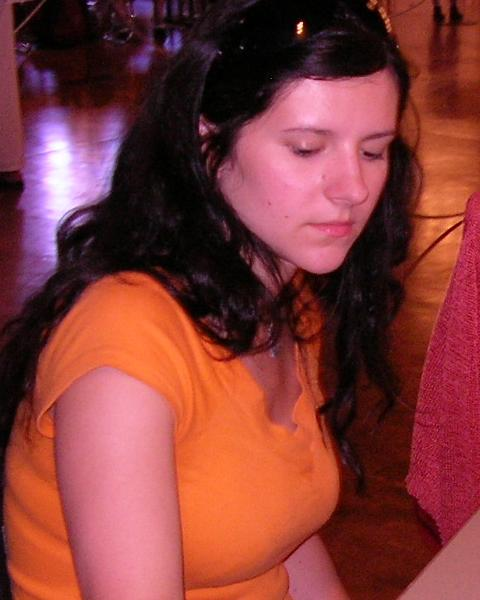 Lili Toth, Women Team Championship for German states 2010 at Braunfels, Photographer Gerhard Hund.